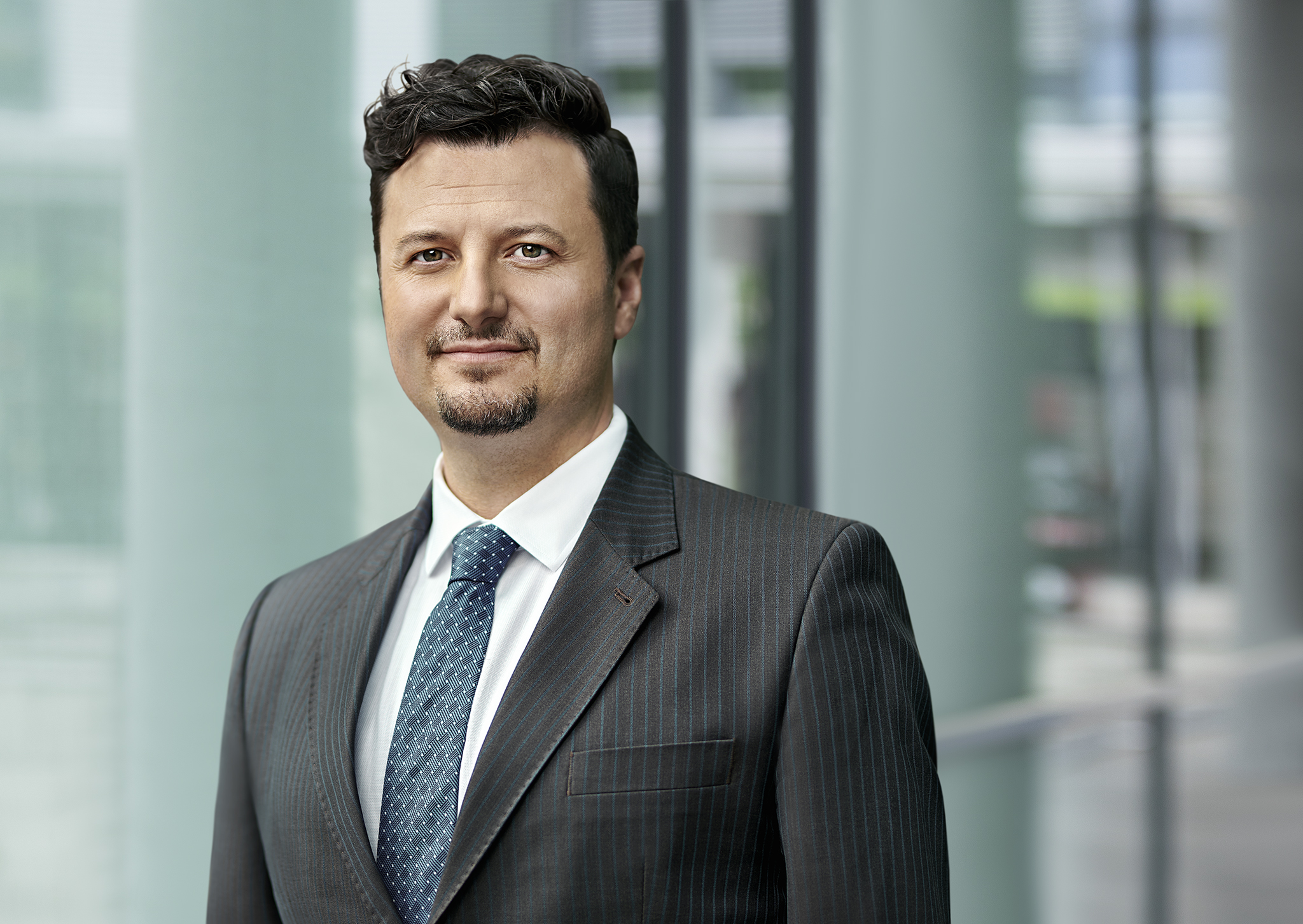 Benjamin Lakatos, MET Group CEO